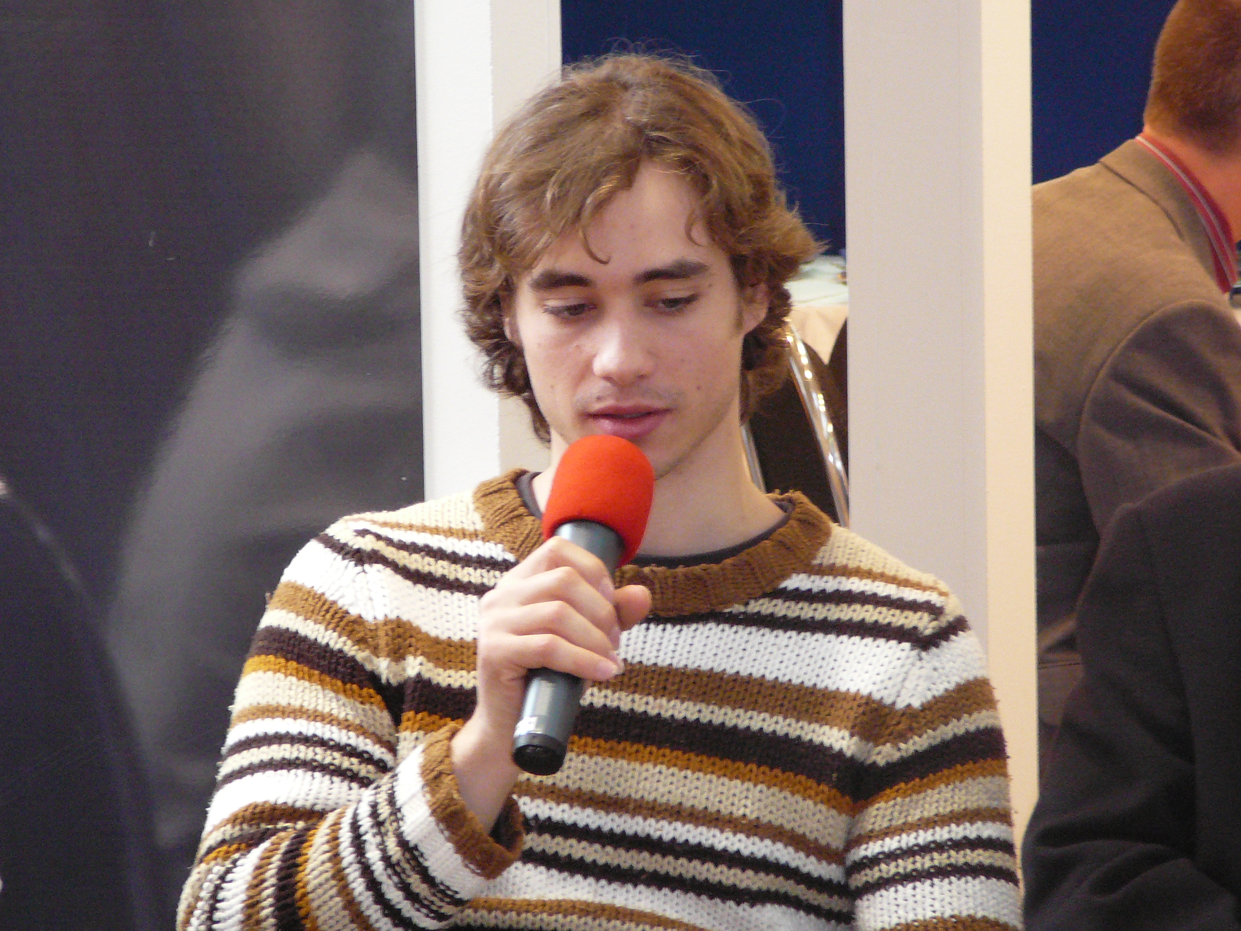 Filip Tomsa on the presentation of film Kvaska in the pavilion A on the Brno Exhibition Grounds in the Building Fair.